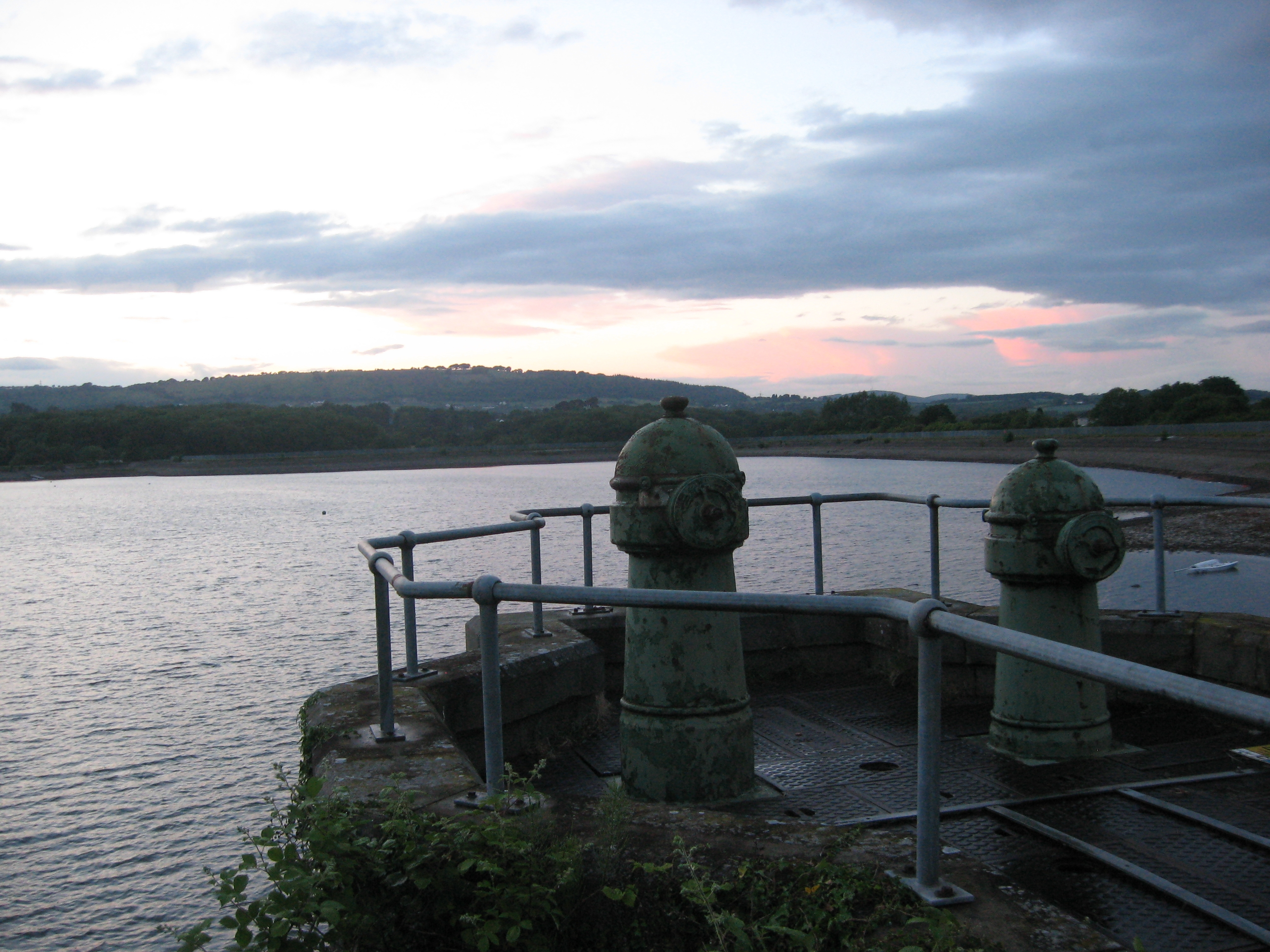 Llanishen reservoir (semi-drained) - many of the original features are still present.